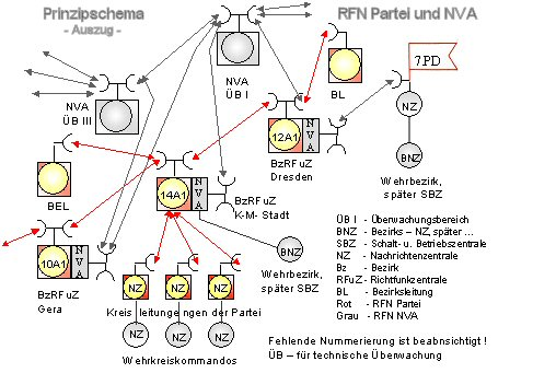 Schematic diagram (excerpt) of the RFN of the Party and the NPA